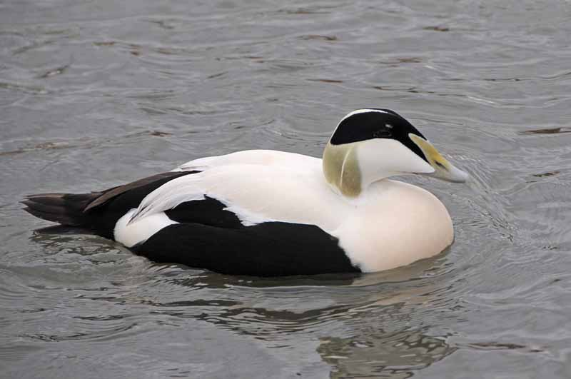 A male Common Eider at WWT Slimbridge, Gloucestershire, England.